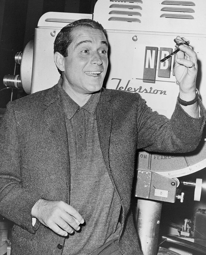 Perry Como during rehearsal. World-Telegram photo by Walter Albertin.